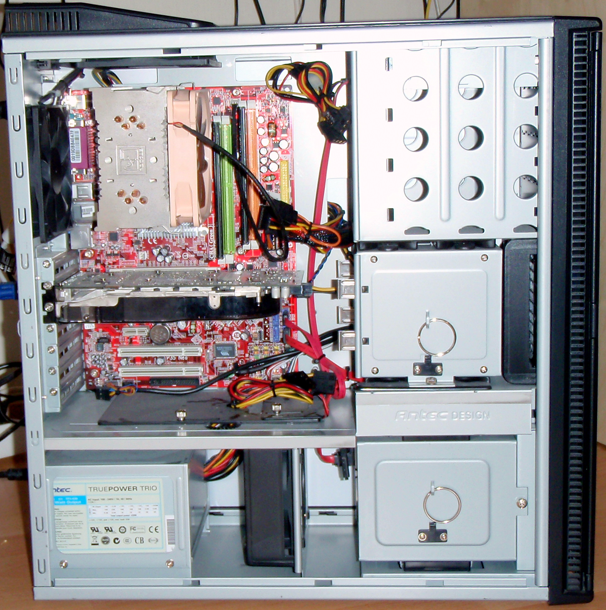 Photo of computer from inside. The computer is (same as File:018.jpg, but without Noctua NH-U12F): Antec P180b MSI S775 INTEL CORE 2 E6750 PALIT GF8800 GTS CORSAIR DDR2 2X1GB SAMSUNG 18X DVD+/-RW ANTEC PSU TRUE POWER TRIO 430W